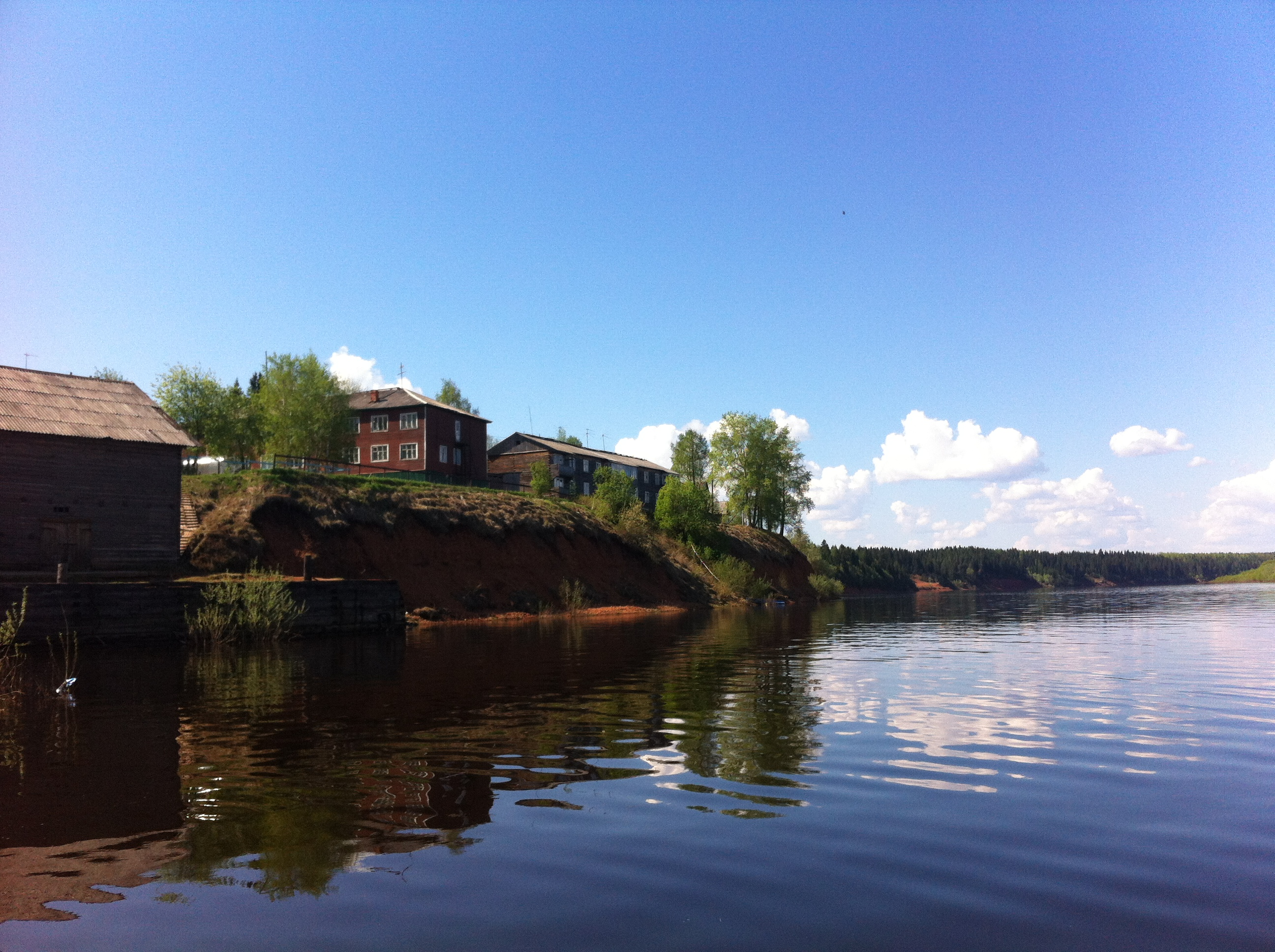 Russia, Arkhangelsk region, Leshukonskoe village, 164670